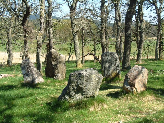 Aboyne Stone Circle A little known stone circle in Aboyne (age not known) that stands in an oak wood.